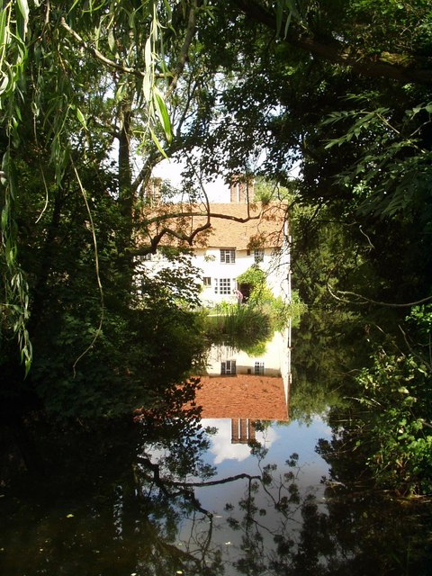 Coggeshall Abbey House from the Bridge